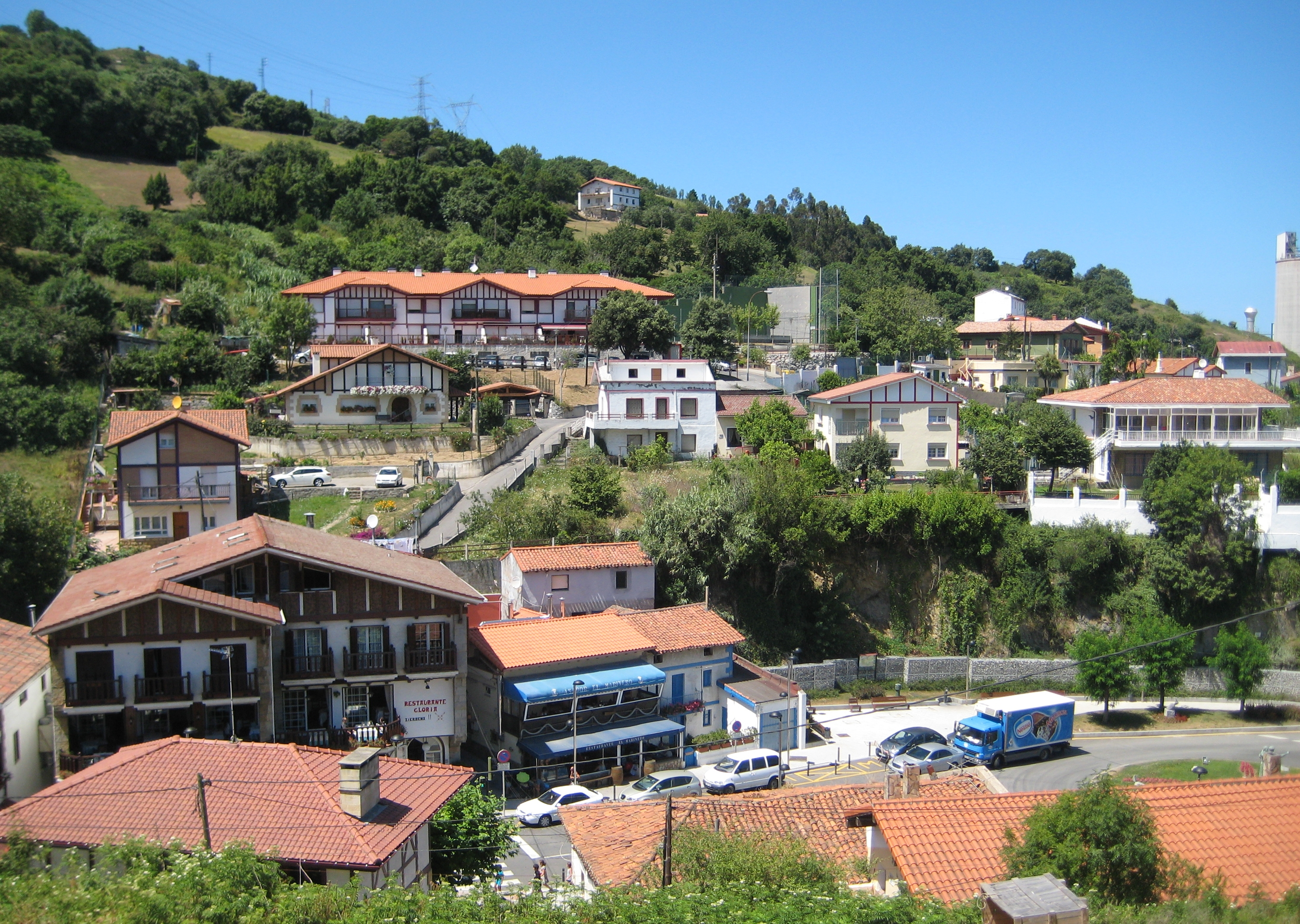 El Puerto / Portua village in Zierbena